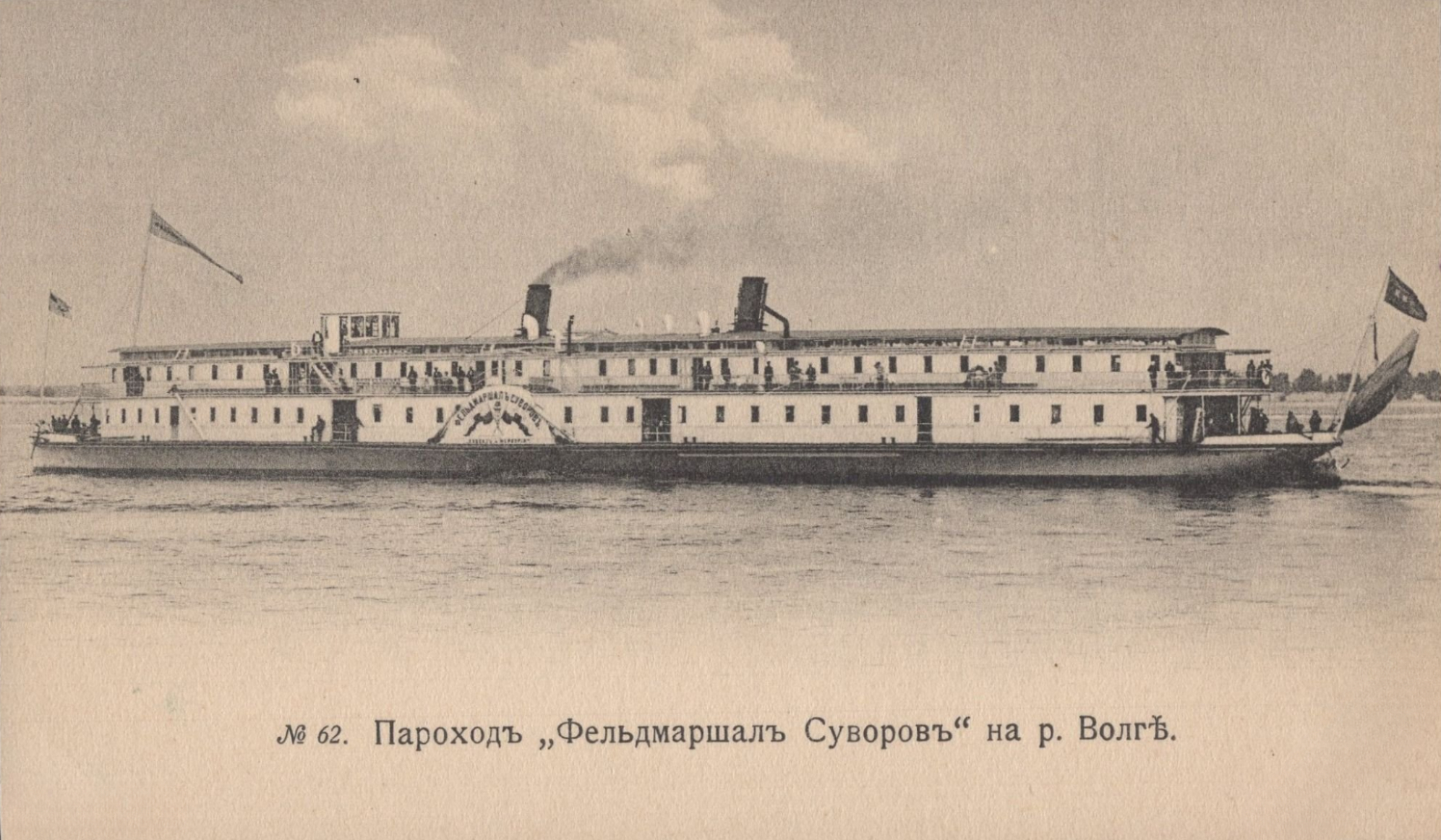 Steamship "Feldmarshal Suvorov" of the "Kavkaz i Merkuriy" company.